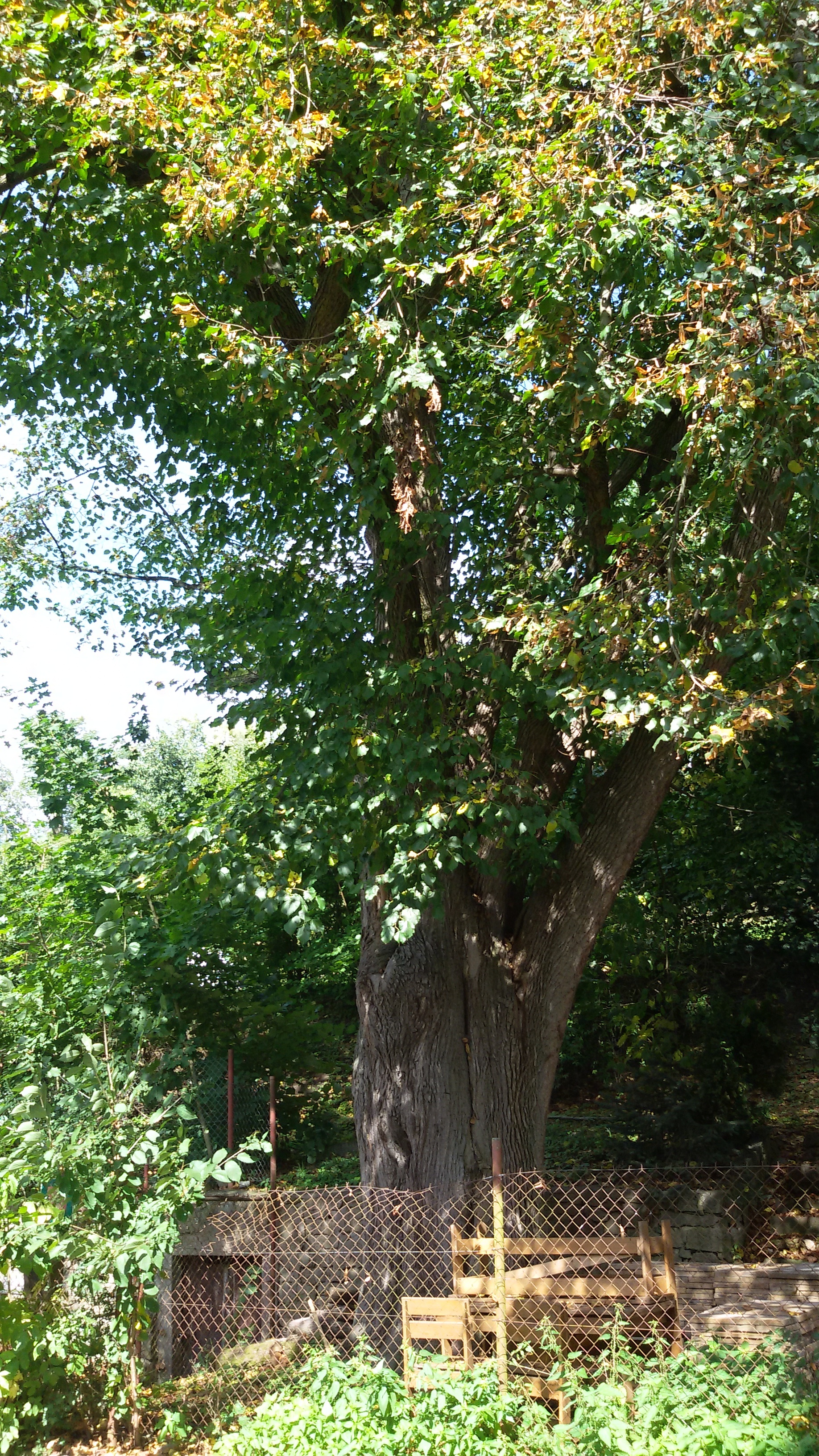 Tilia platyphyllos, famous tree in Tábor, South Bohemia, Czechia.